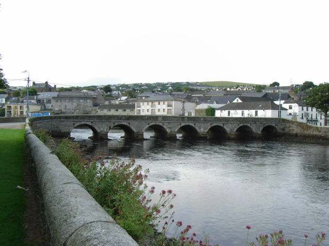 Bridge on the Leitrim River in Wicklow Town No name for it is shown on the maps.